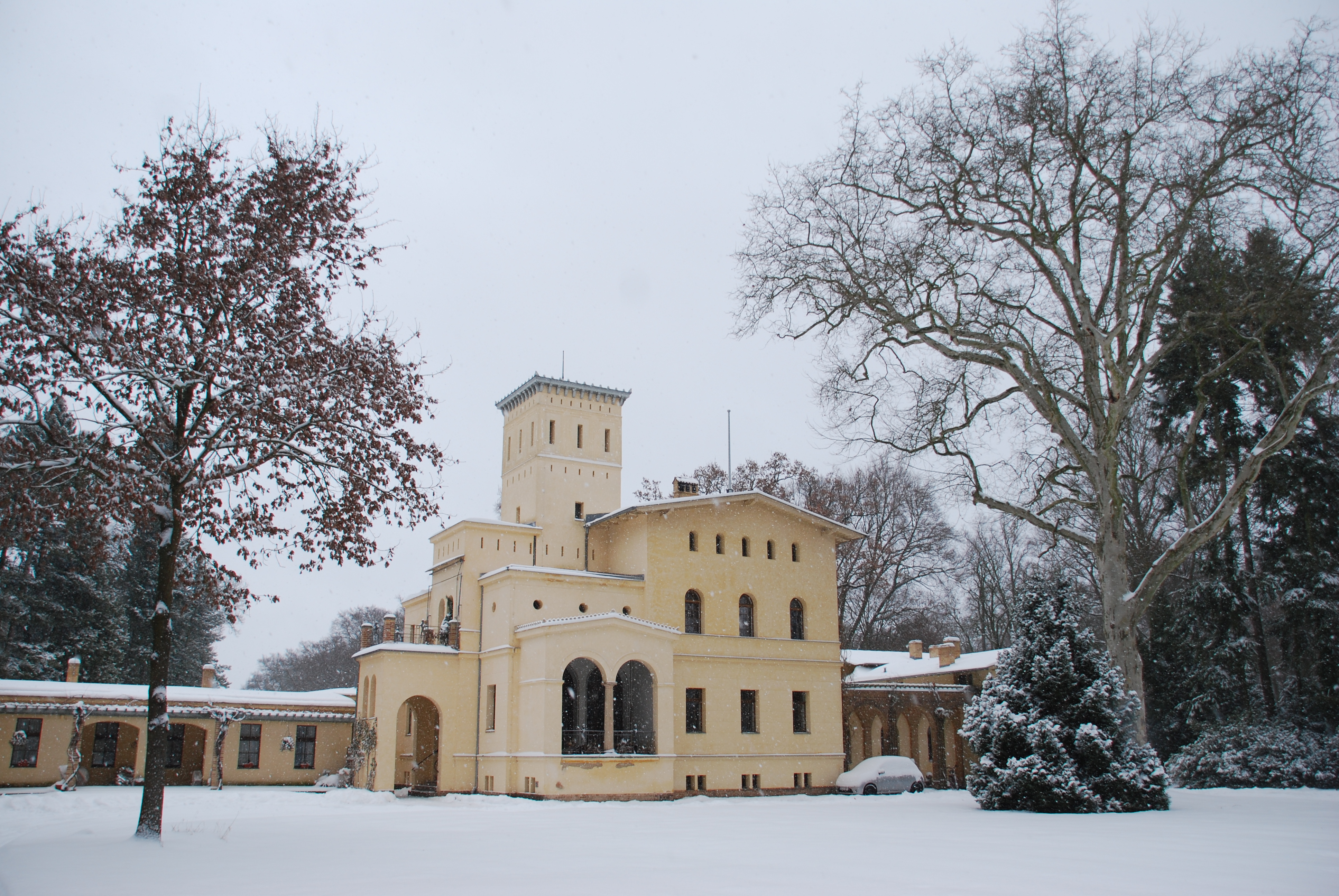 The Römische Bäder or the Schloss Charlottenhof at Sanssouci - Potsdam, Germany.